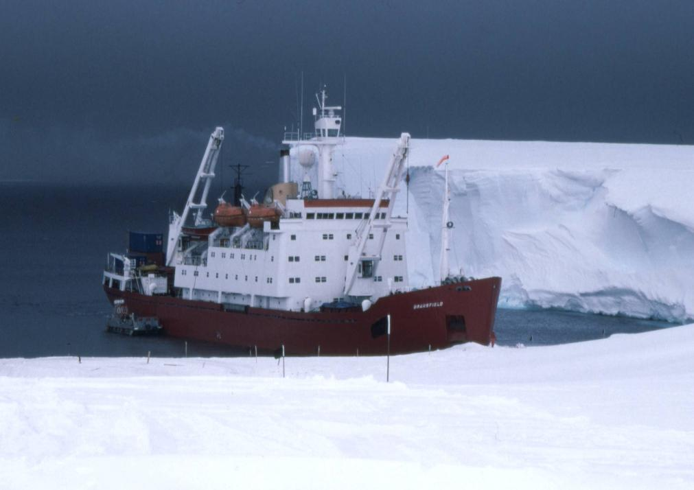 RRS Bransfield unloading at Halley Research Station